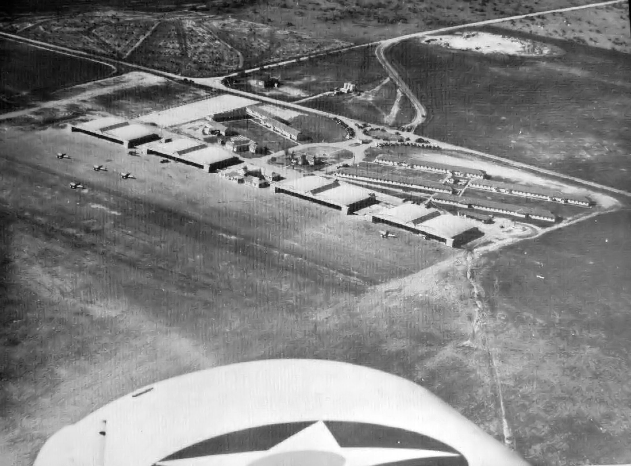 Airfield photographed from at PT-19 in flight